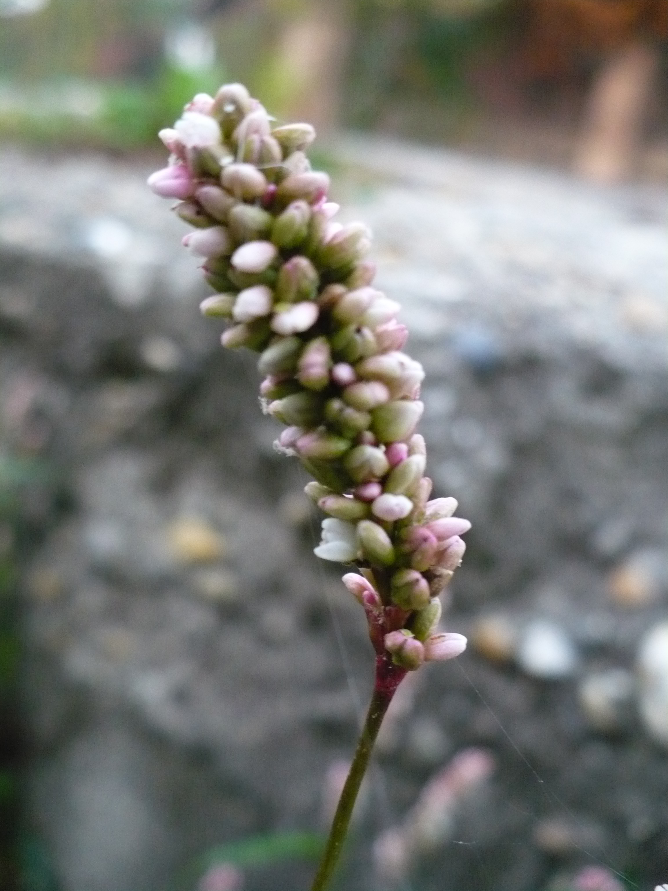 Inflorescence of Persicaria maculosa (redshank)